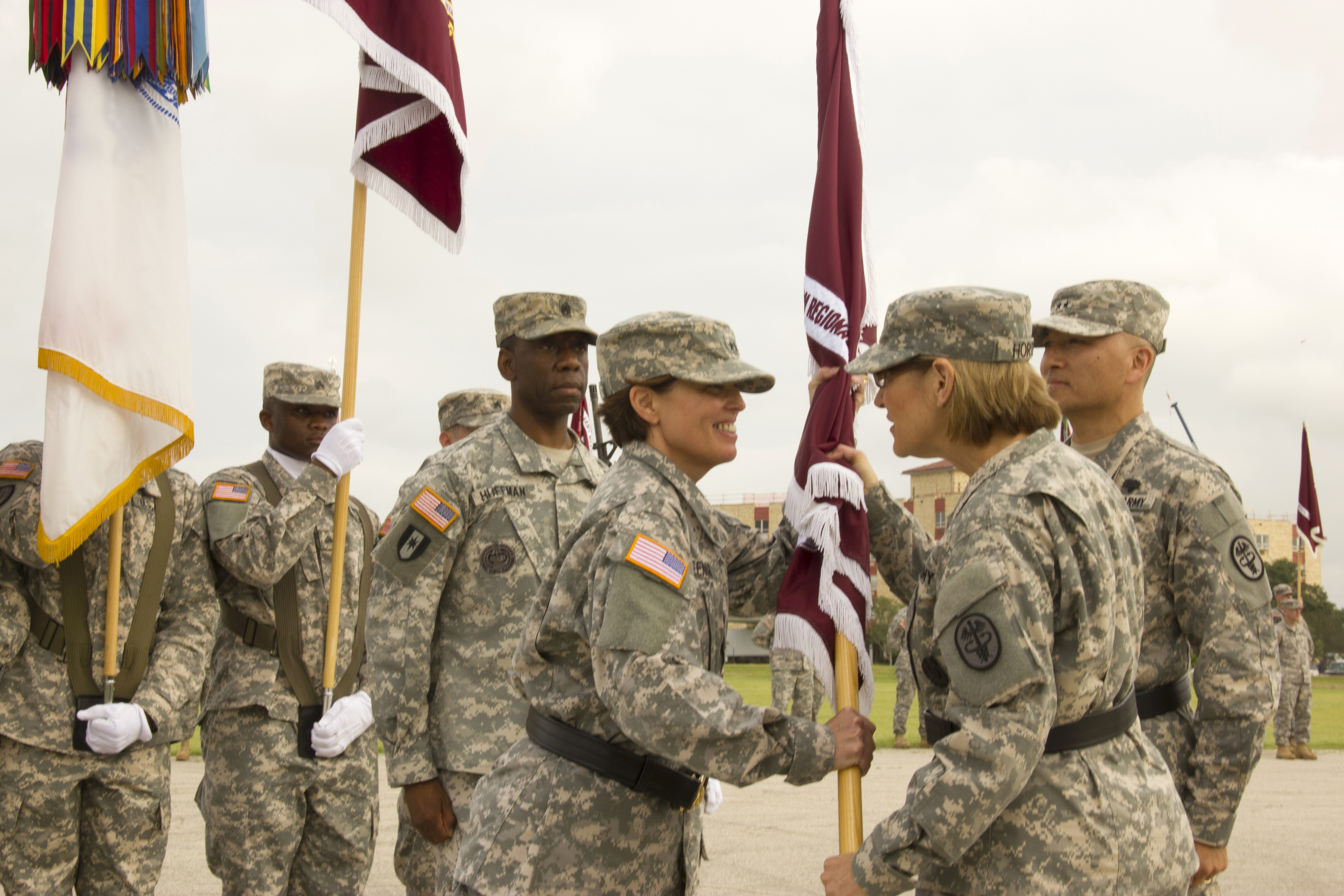 Lt. Gen. Patricia D. Horoho, Army Surgeon General and U.S. Army Medical Command commanding general (right), passes the Southern Regional Medical Command guidon to Maj. Gen. Jimmie O. Keenan, incoming SRMC commanding general (left), while Command Sgt. Maj. Marshall L. Huffman and outgoing Commanding General Maj. Gen. M. Ted Wong look on during the SRMC change of command held on June 6. The passing of the guidon is an Army tradition that officially marked the change of command. U.S. Army photo by Erin Perez, SRMC Directorate of Communications.